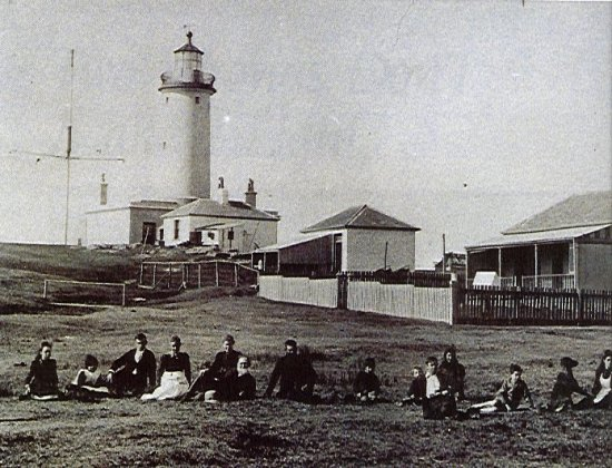 Historic view of Cape St George Lighthouse, Jervis Bay Village, Jervis Bay Territory, Australia.